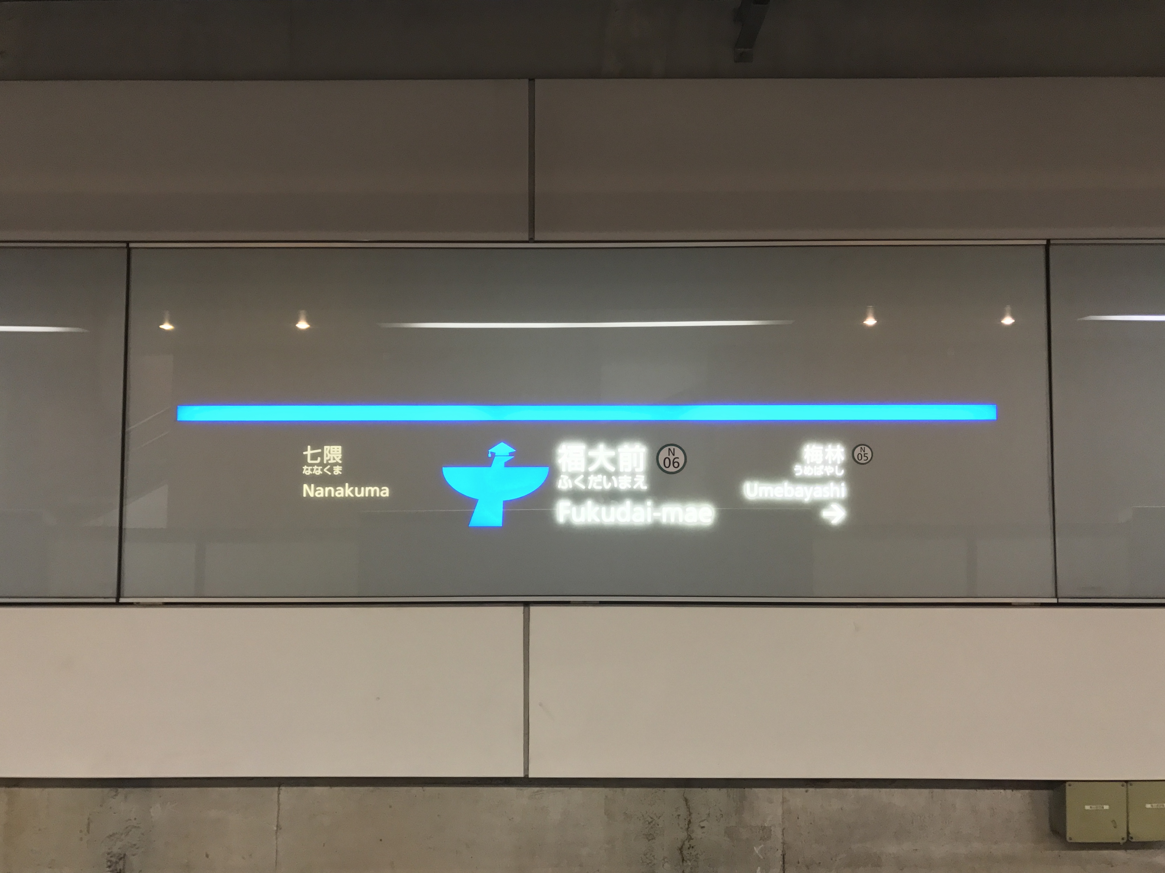 Fukudai-mae Station on the Fukuoka Subway in Fukuoka, Japan